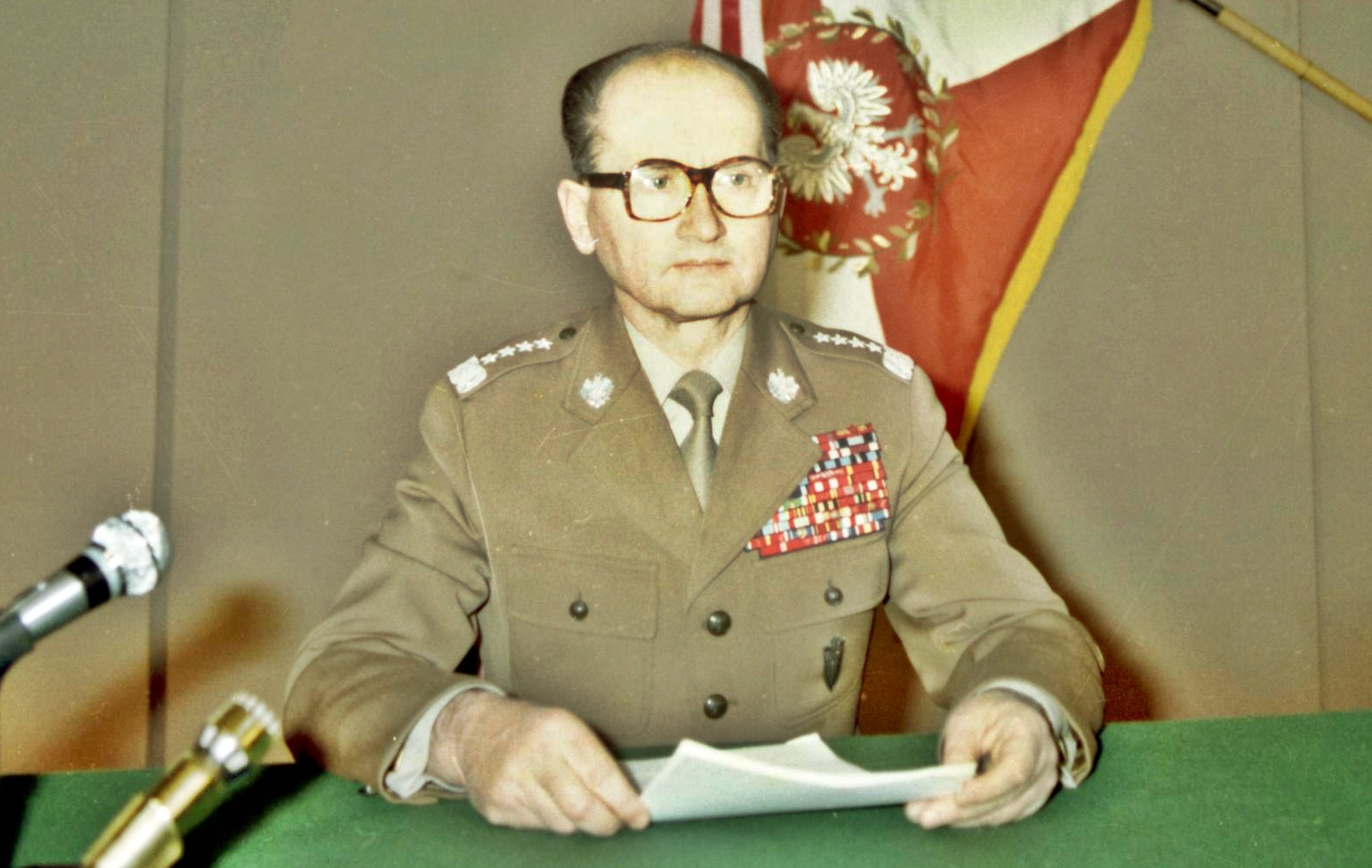 Gen. Wojciech Jaruzelski, cropped